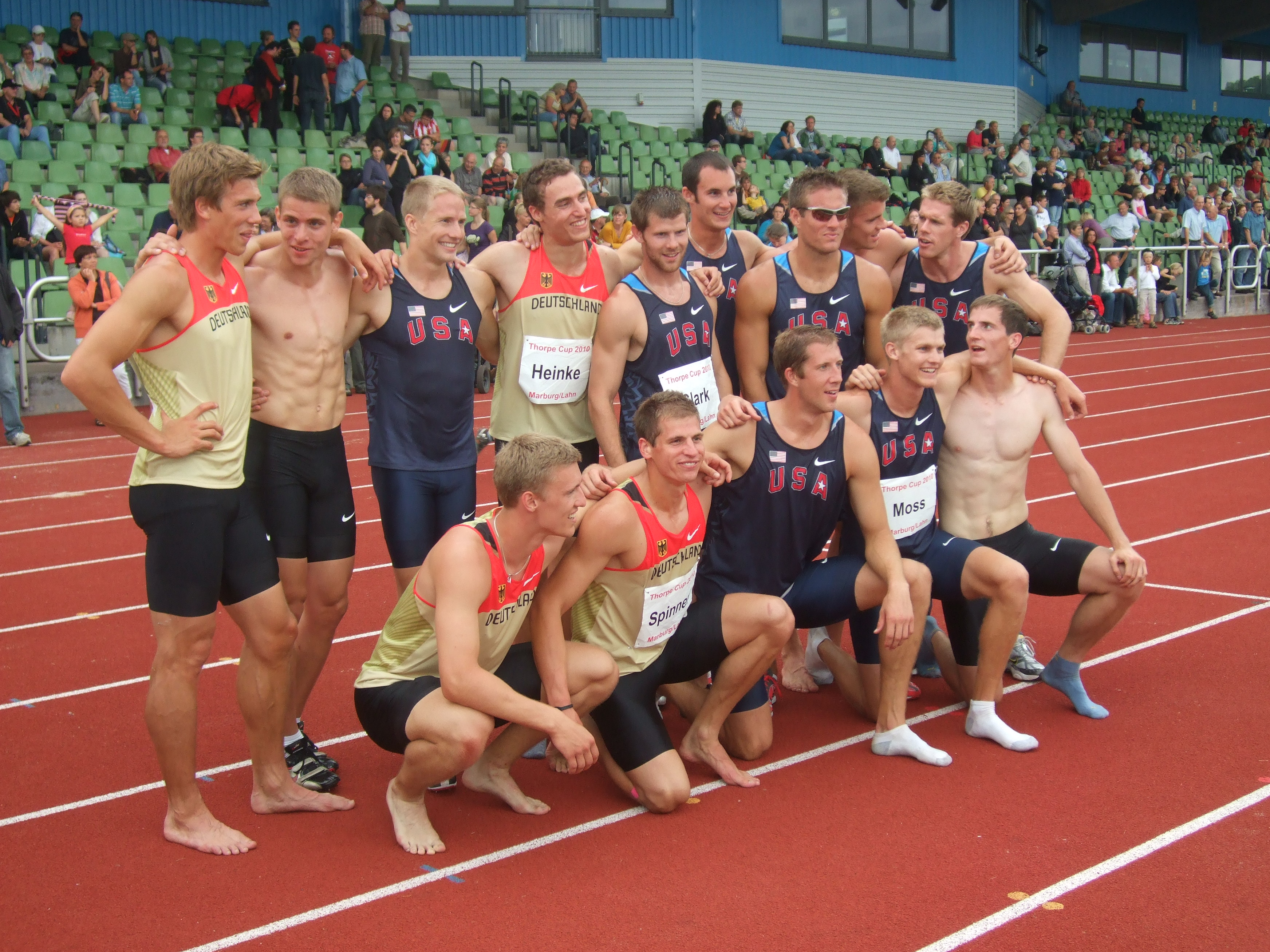 The decathletes of Germany and the USA after competing at the 2010 Thorpe Cup